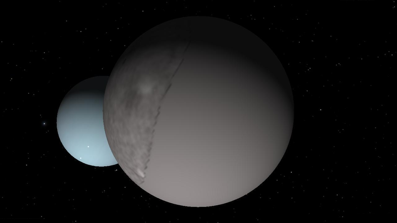 Uranus and Umbriel.